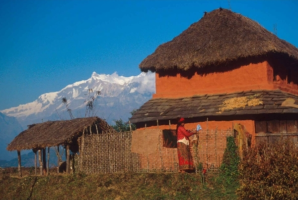 Bhumdi, Nepal.Nepalese villager and house to fore, Anapurna in distance.